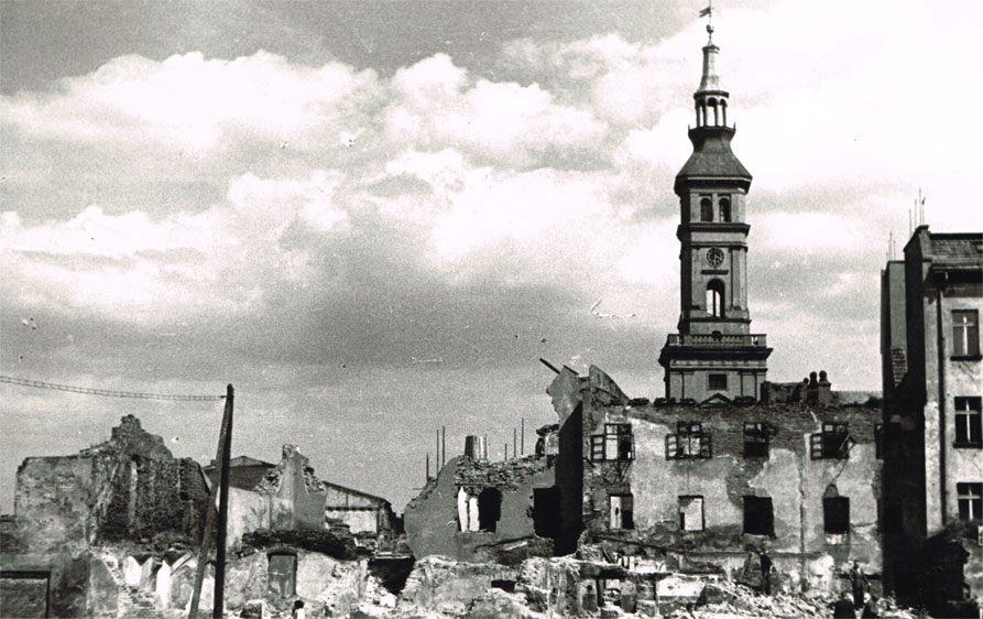 Prudnik in 1946.